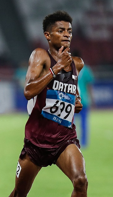 Athletics at the 2018 Asian Games – Men's 3000 metres steeplechase